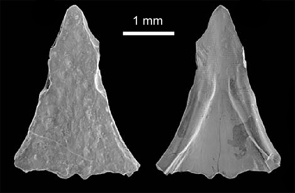 The Natural History Museum, London, UK (NHMUK) PV R36521, the holotype of the albanerpetontid lissamphibian tetrapod species Wesserpeton evansae SWEETMAN & GARDNER 2013, an isolated azygous frontal, in dorsal (left) and ventral (right) view, from the Lower Cretaceous of the Isle of Wight, southern England.